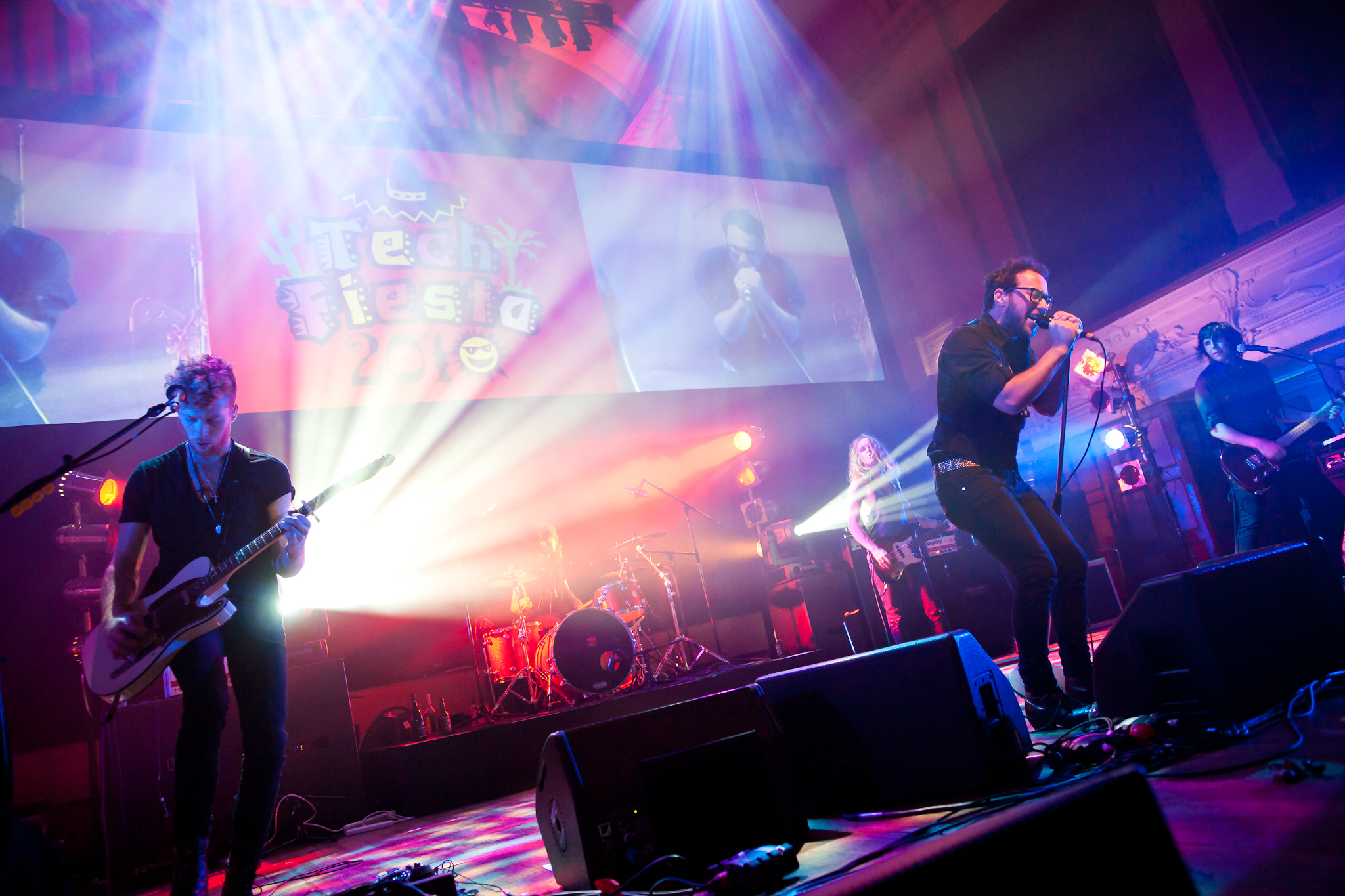 Midnight Youth performing at the 2010 TechFiesta